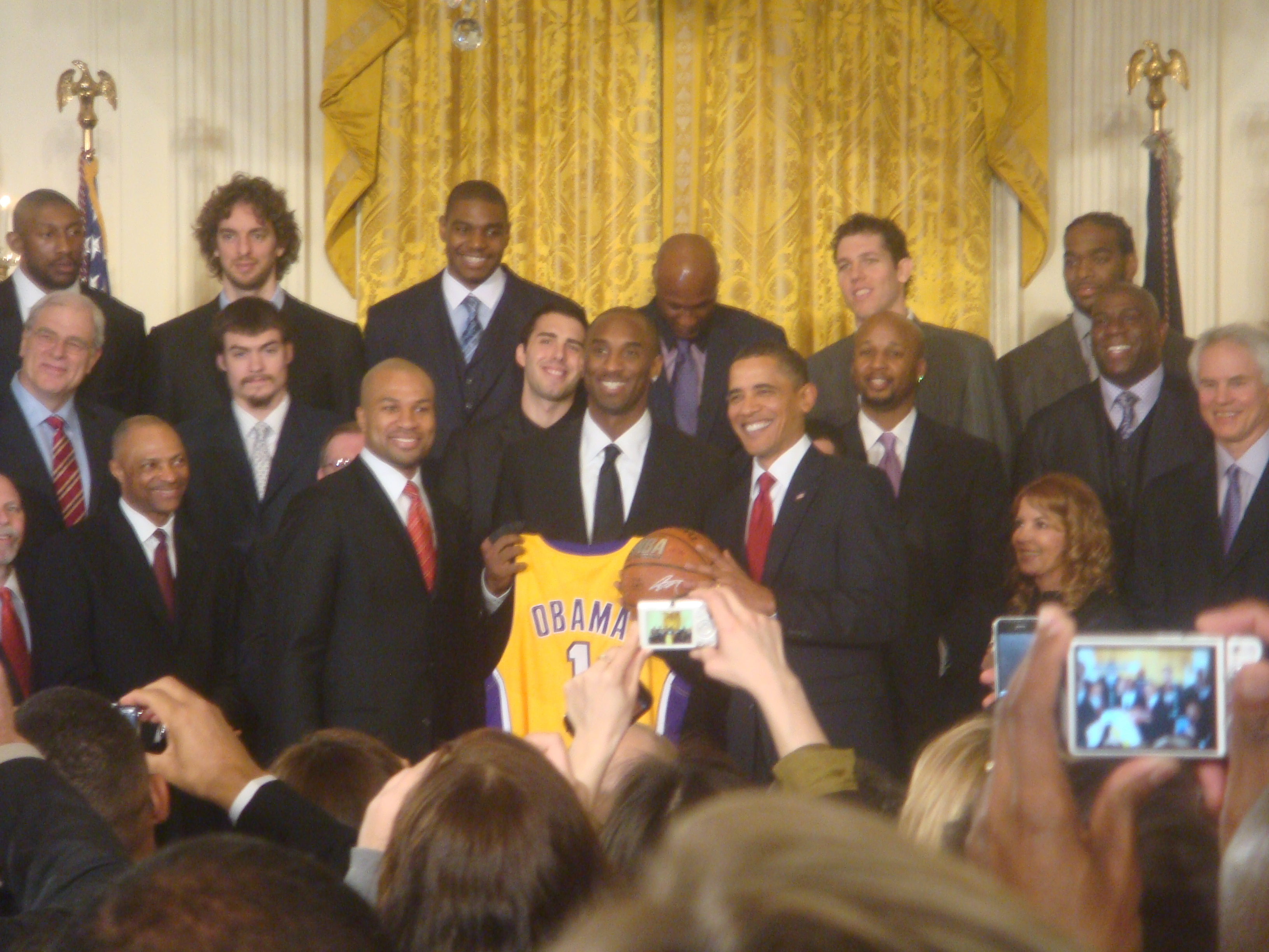 Lake Show!